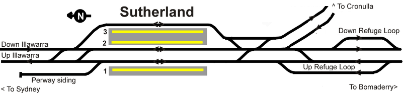 Track layout at Sutherland railway station